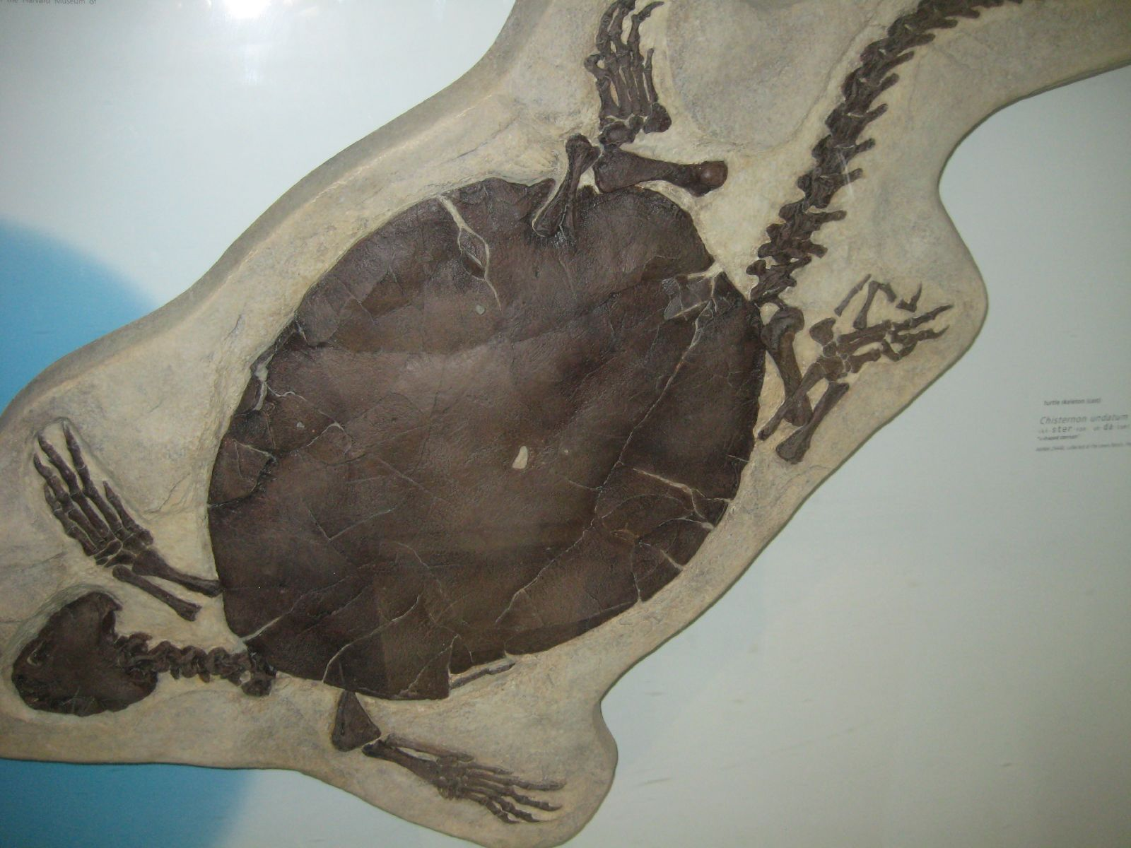 Chisternon undatum, American Museum of Natural History